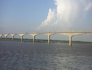 View of Setu from the bank of Ganga